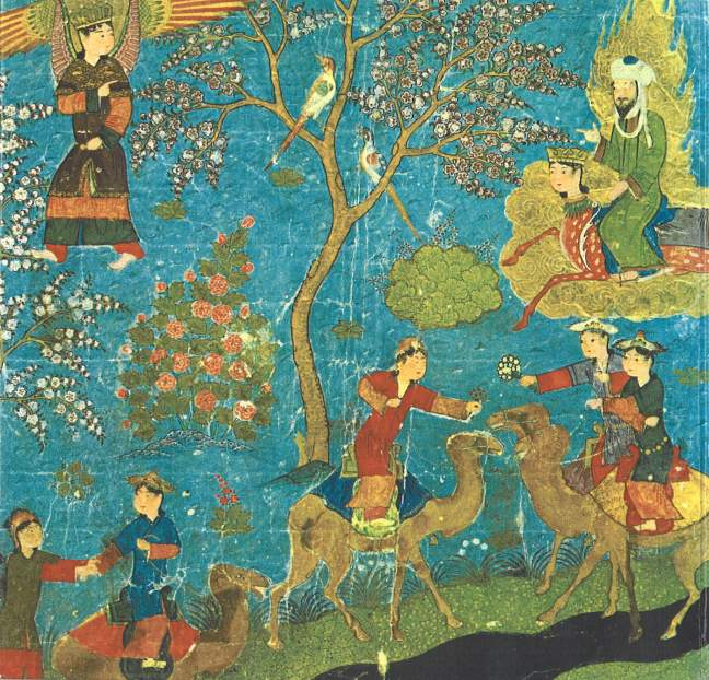 Mohammed (upper right) visiting Paradise while riding Buraq, accompanied by the Angel Gabriel (upper left). Below them, riding camels, are some of the fabled houris of Paradise -- the "virgins" promised to heroes and martyrs. This image and the following five images are Persian, 15th century, from a manuscipt entitled Miraj Nama, which is in the Bibliotheque Nationale, Paris. Taken from The Miraculous Journey of Mahomet, by Marie-Rose Seguy.